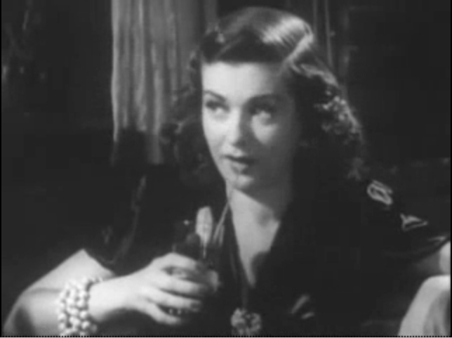 Cropped screenshot of Joan Bennett from the film Scarlet Street